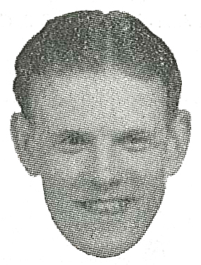 Rolf Larsson (1918-1991), Swedish jazz pianist, composer and arranger.